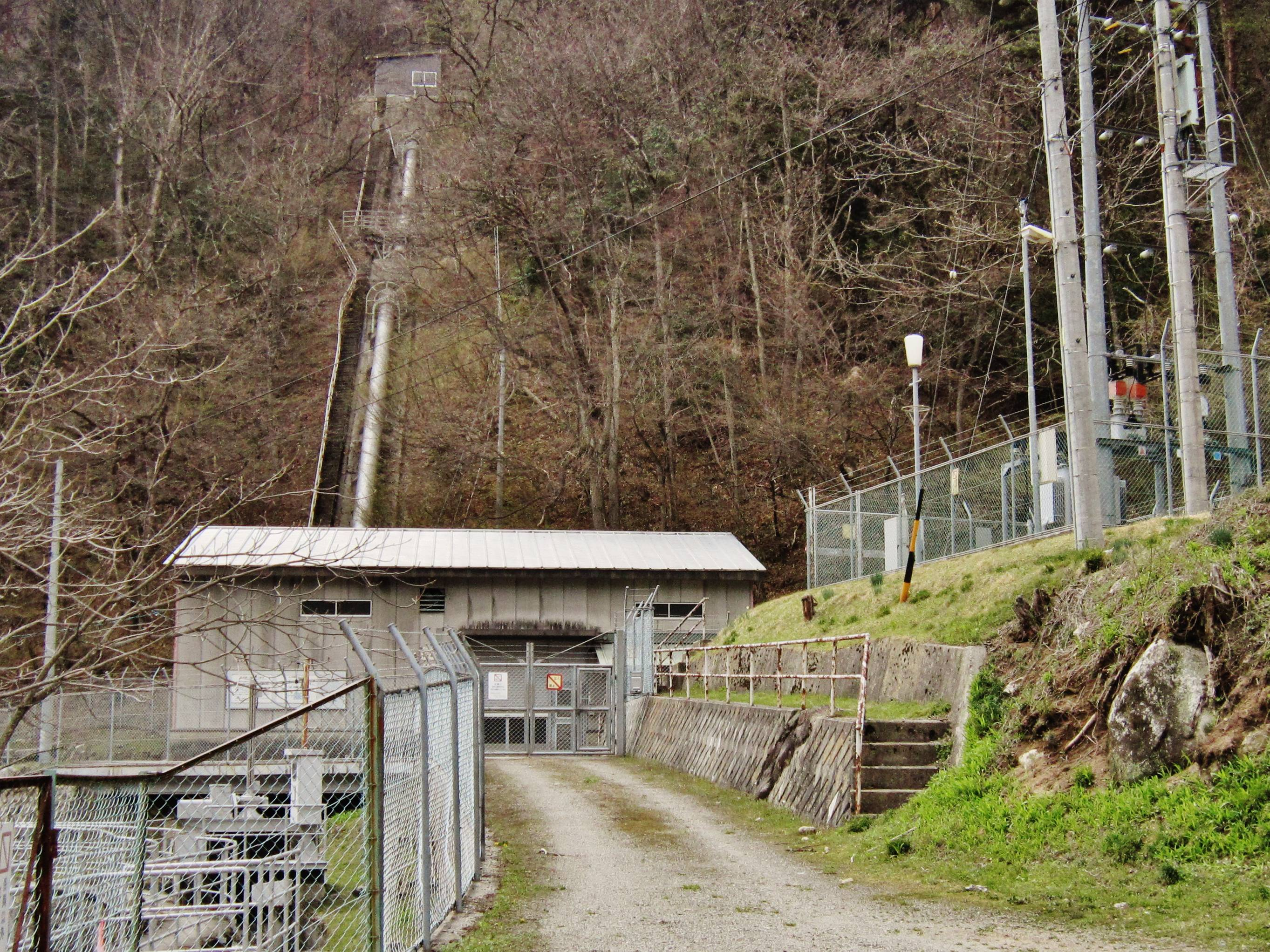 Miyashiro I power station.